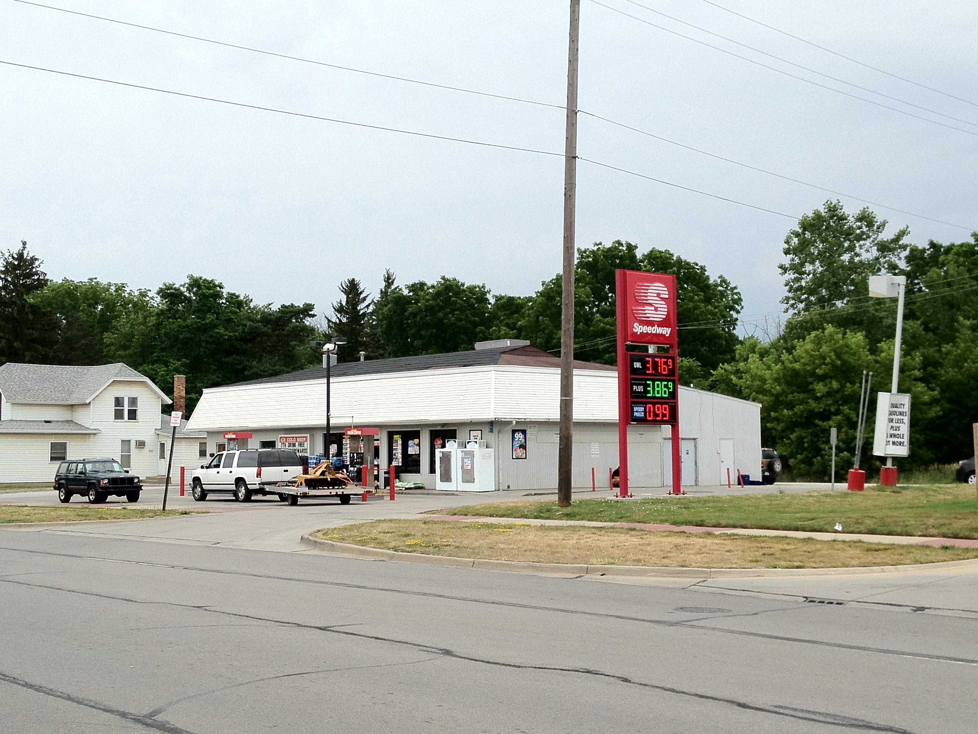 This is one of Speedway's smaller locations, a converted Total station. This gas station has only 4 gas pumps.